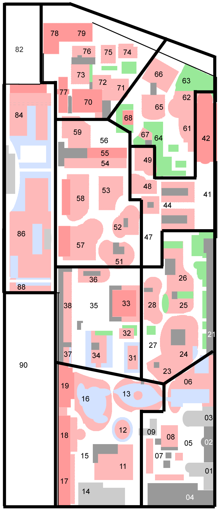 Map of Artis Zoo in Amsterdam, showing a numbering system designed by myself.